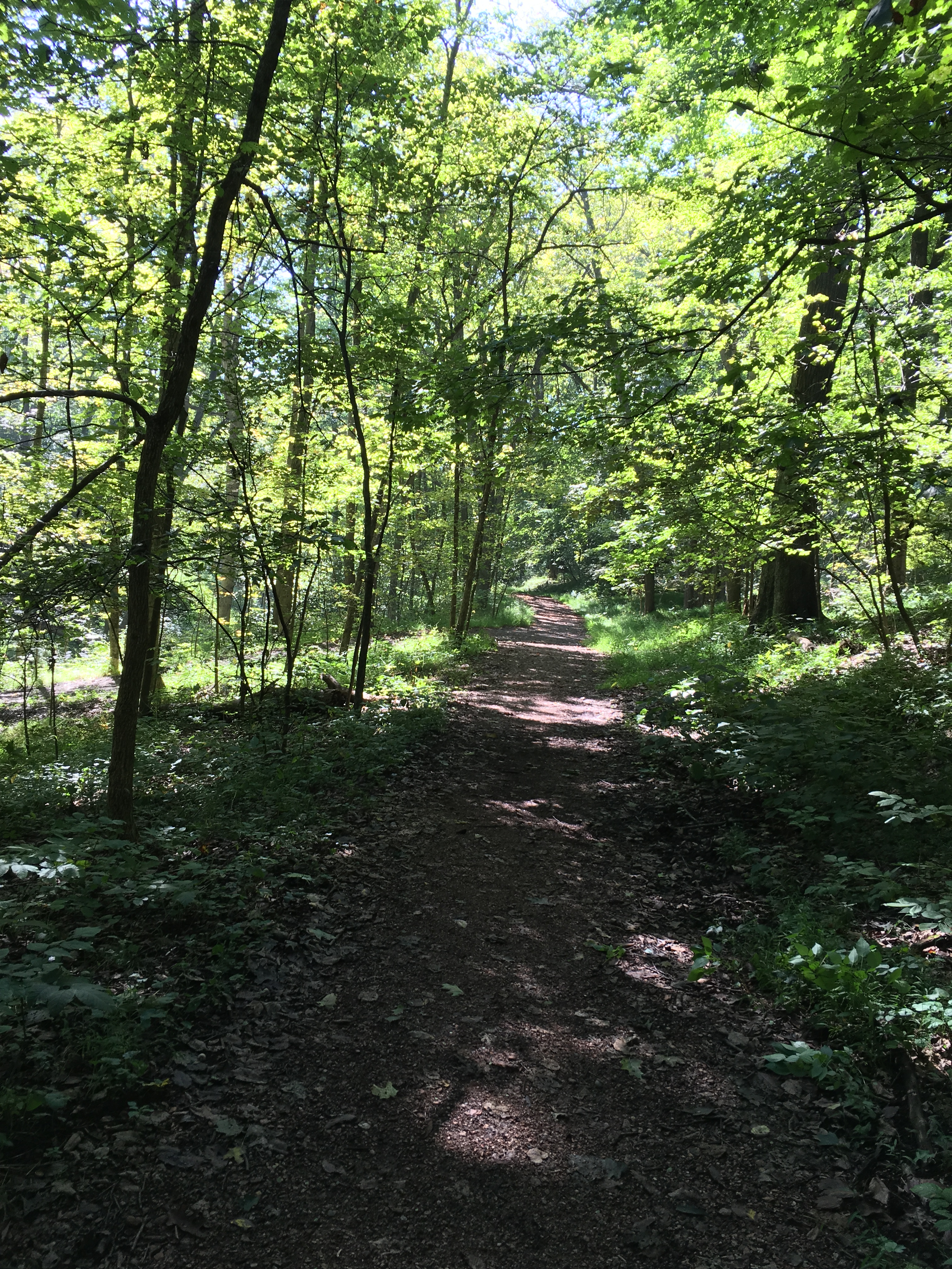 South Park is connected to a regional bike trail network by the Montour Trail Connector which runs through the sleepy hollow section of the park. This image is an example of the terrain in the southern tip of the park.